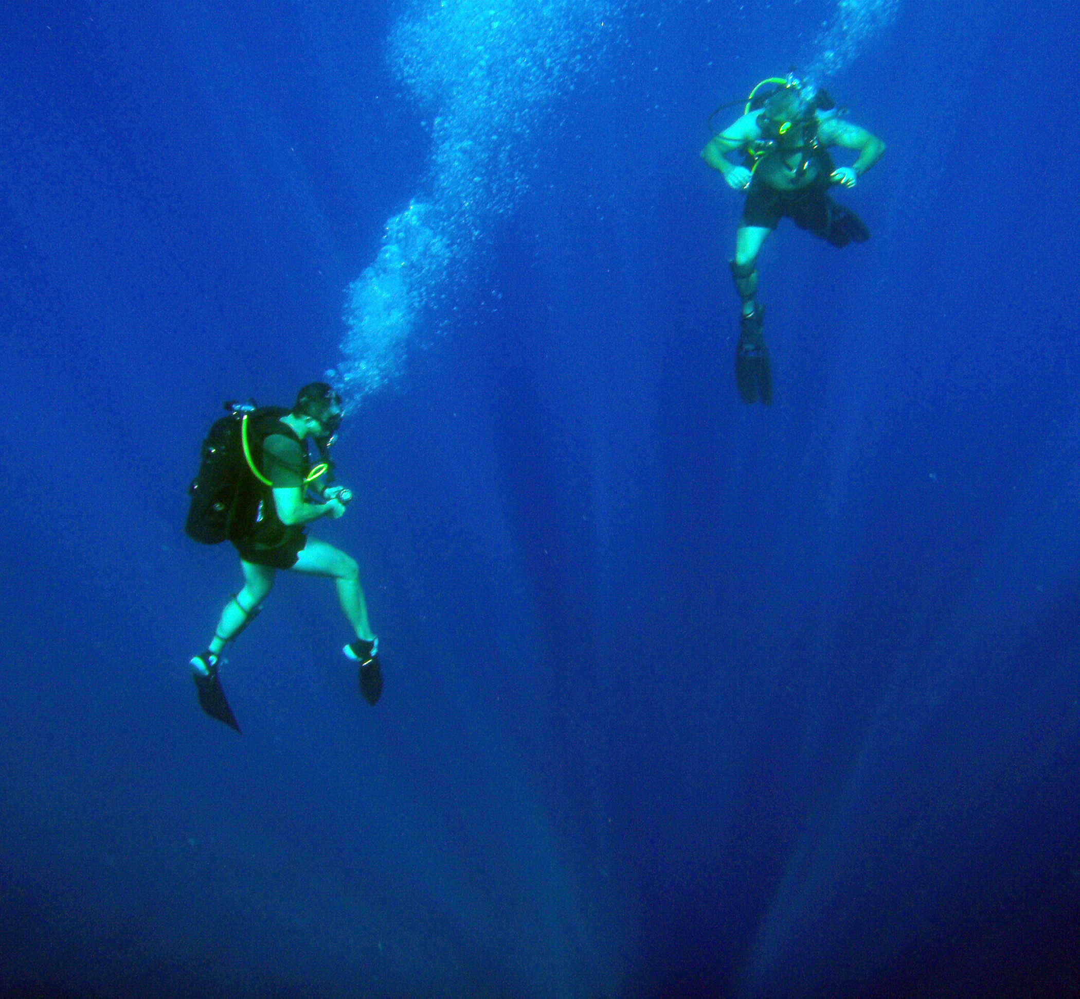 MIDDLE EAST (June 24, 2009) Explosive Ordnance Disposal technicians perform a safety stop upon assent while conducting a training dive. The exercise is designed to improve interoperability and tactical proficiency in underwater mine countermeasures, combat marksmanship, anti-terrorism force protection diving, counter improvised explosive device tactics, tactical combat casualty care and dive medicine that strengthen overall military relations. (U.S. Navy photo by Mass Communication Specialist 1st Class Joseph W. Pfaff/Released)